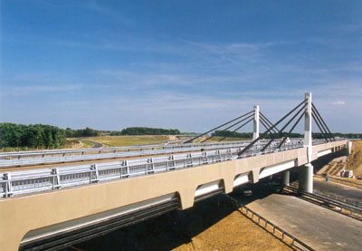 Bridge of Korong, M7 motorway, Korong, Hungary